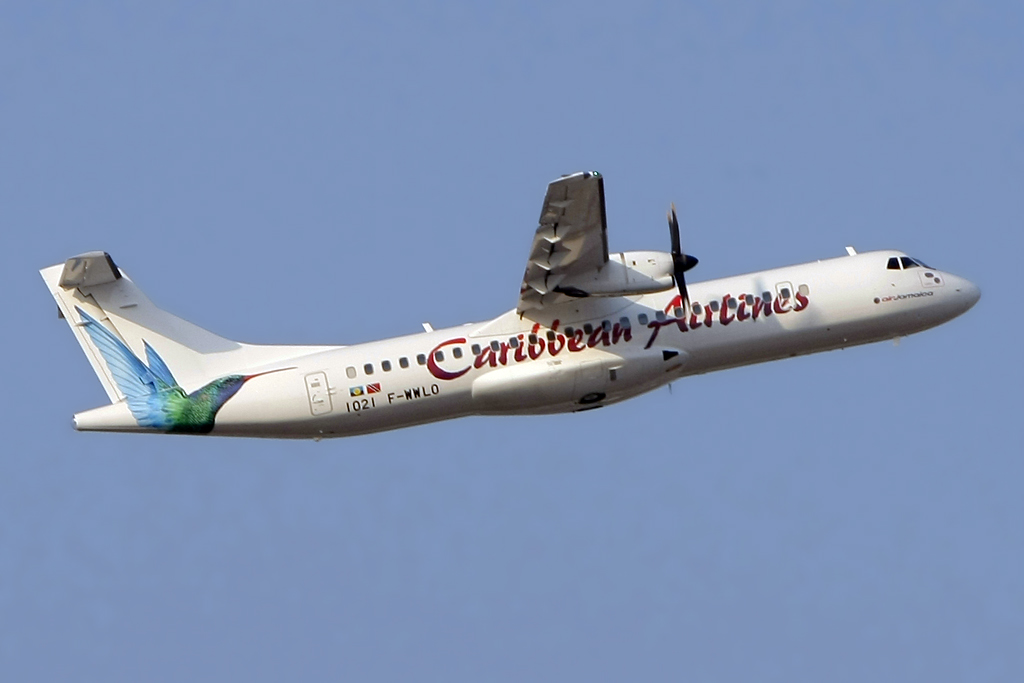 F-WWLO , msn 1021 , Toulouse 06-SEP-2012.